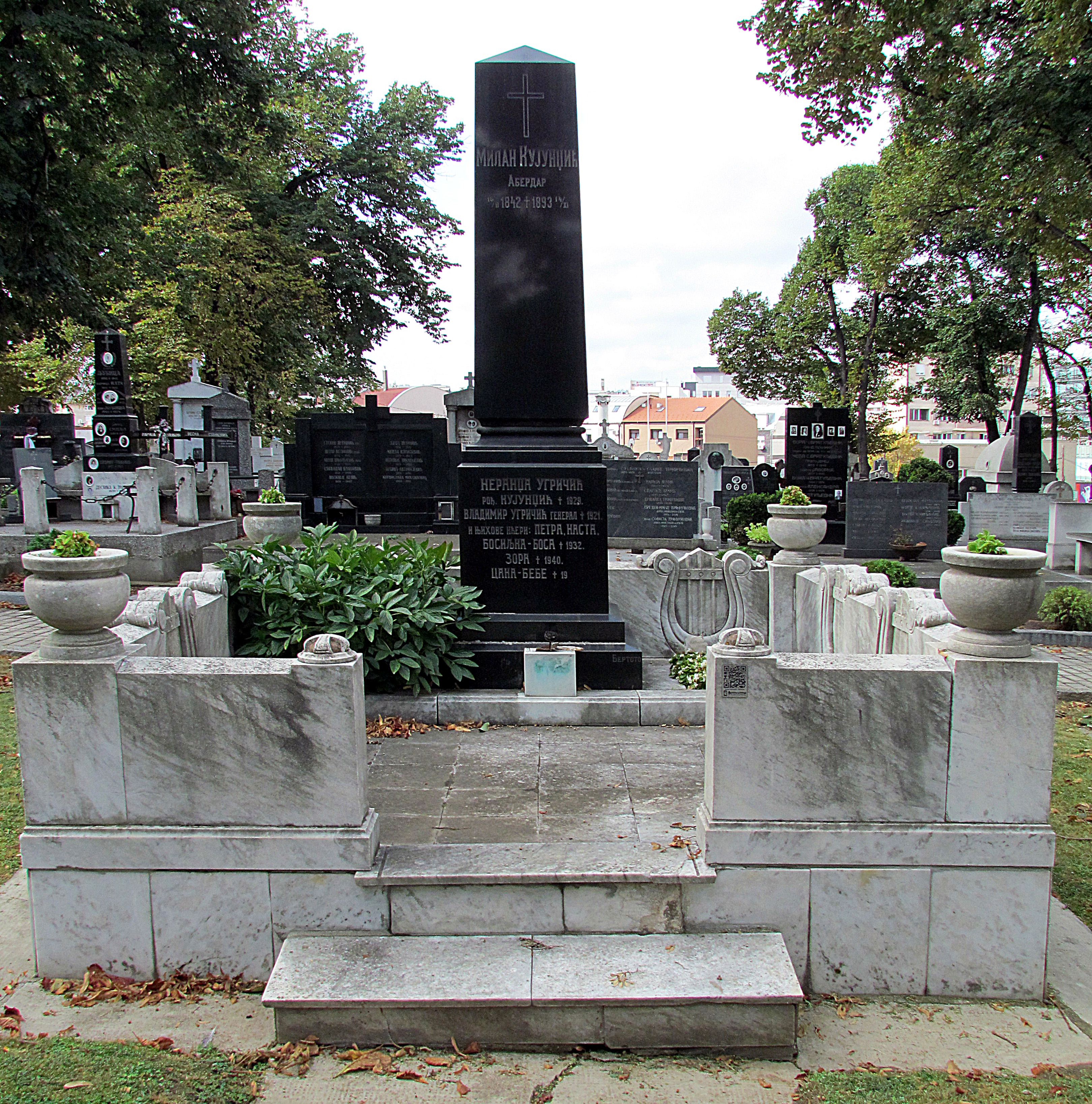 Tomb of Milan Kujundžić Aberdar Serbian poet, philosopher and politician (Belgrade New Cemetery).